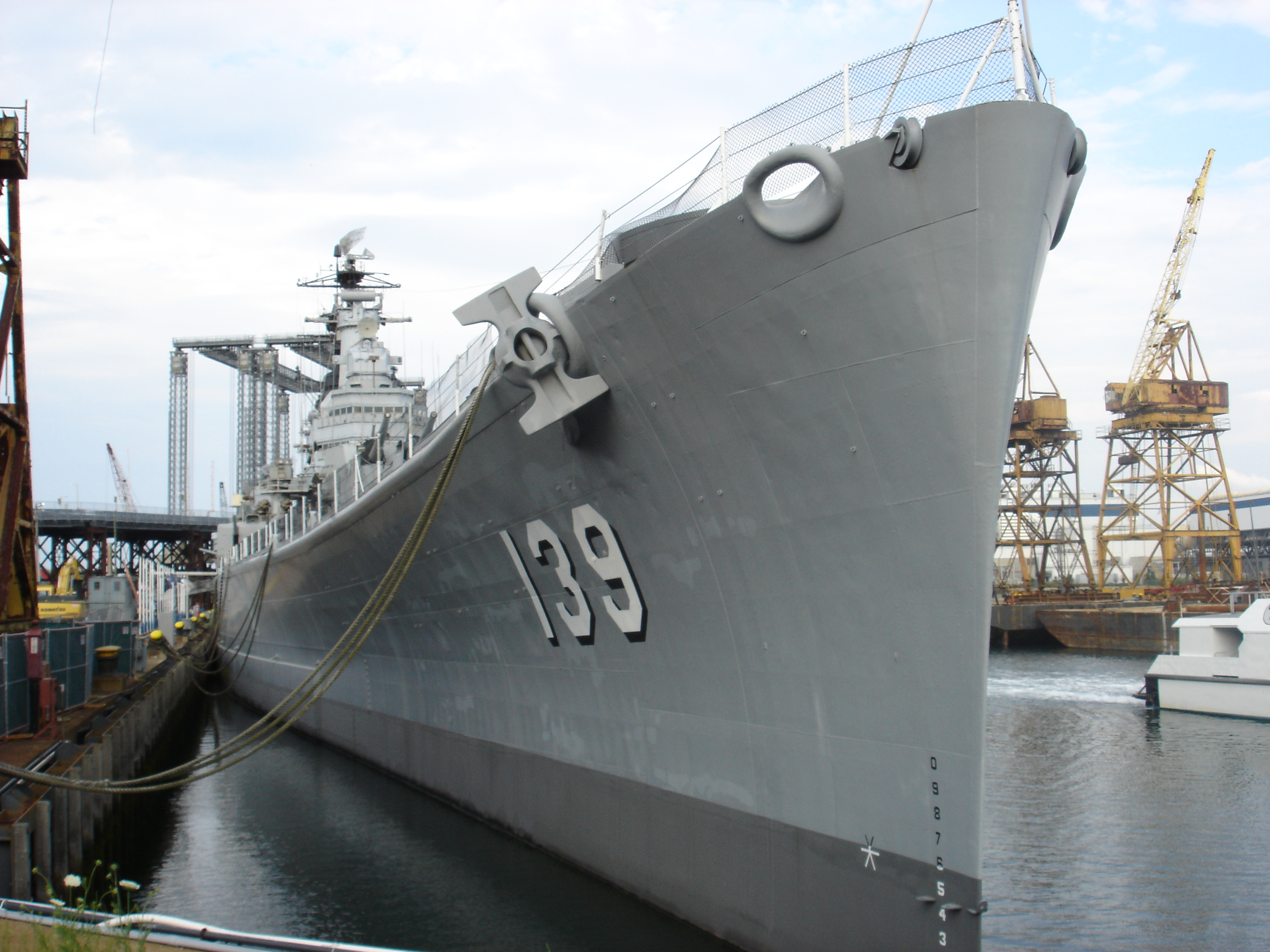 The USS Salem (CS-139)/United States Naval Shipbuilding Museum at its permanent location in Quincy, MA.